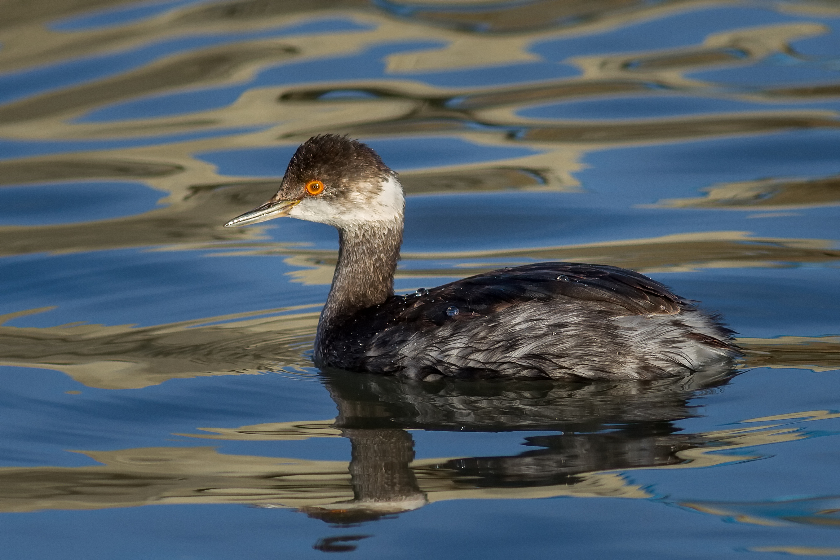 Black-necked Grebe (Podiceps nigricollis californicus) in non-breeding plumage near Corte Madera, California.